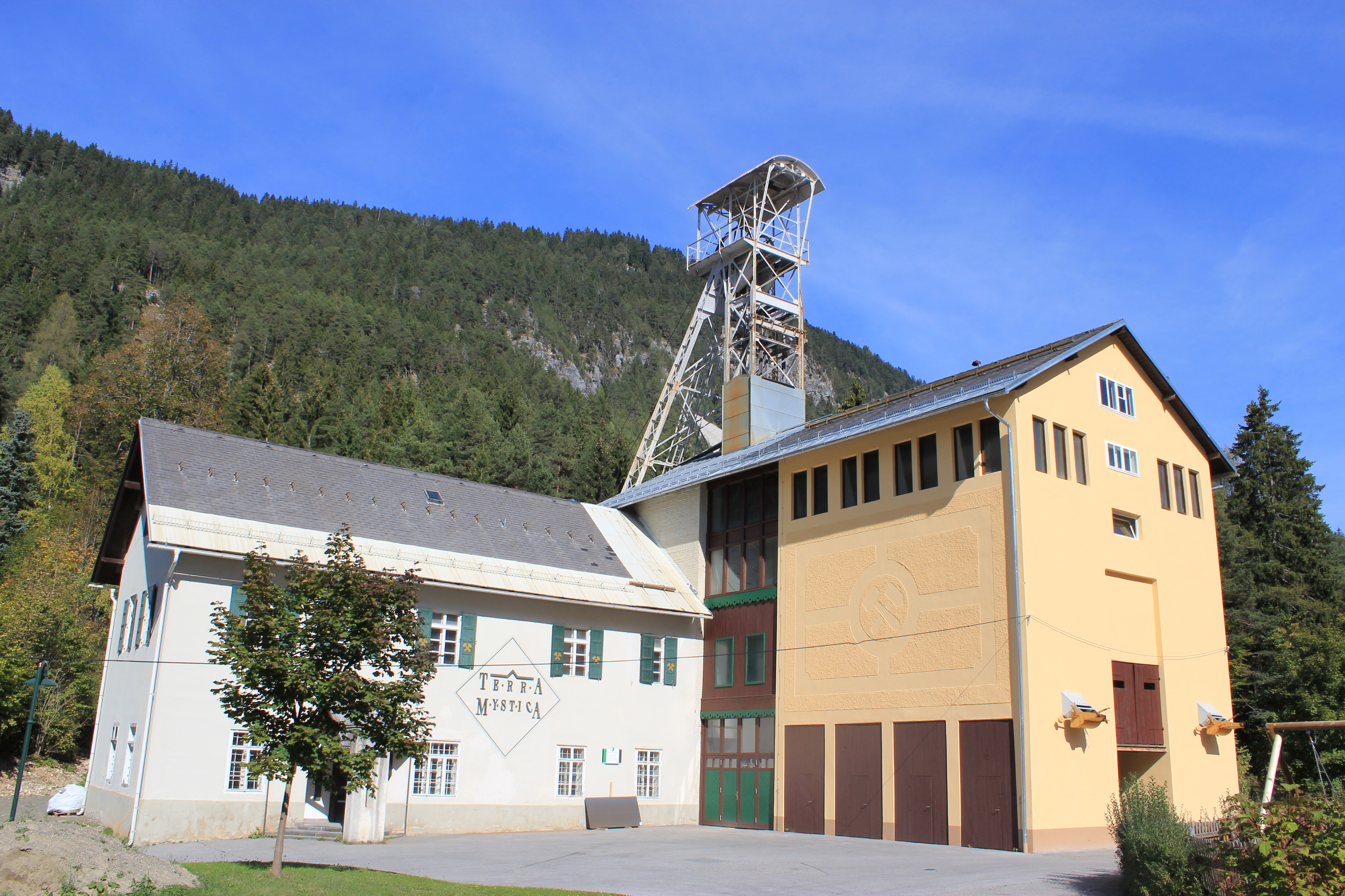 Headframe Rudolfschacht in the community of Bad Bleiberg